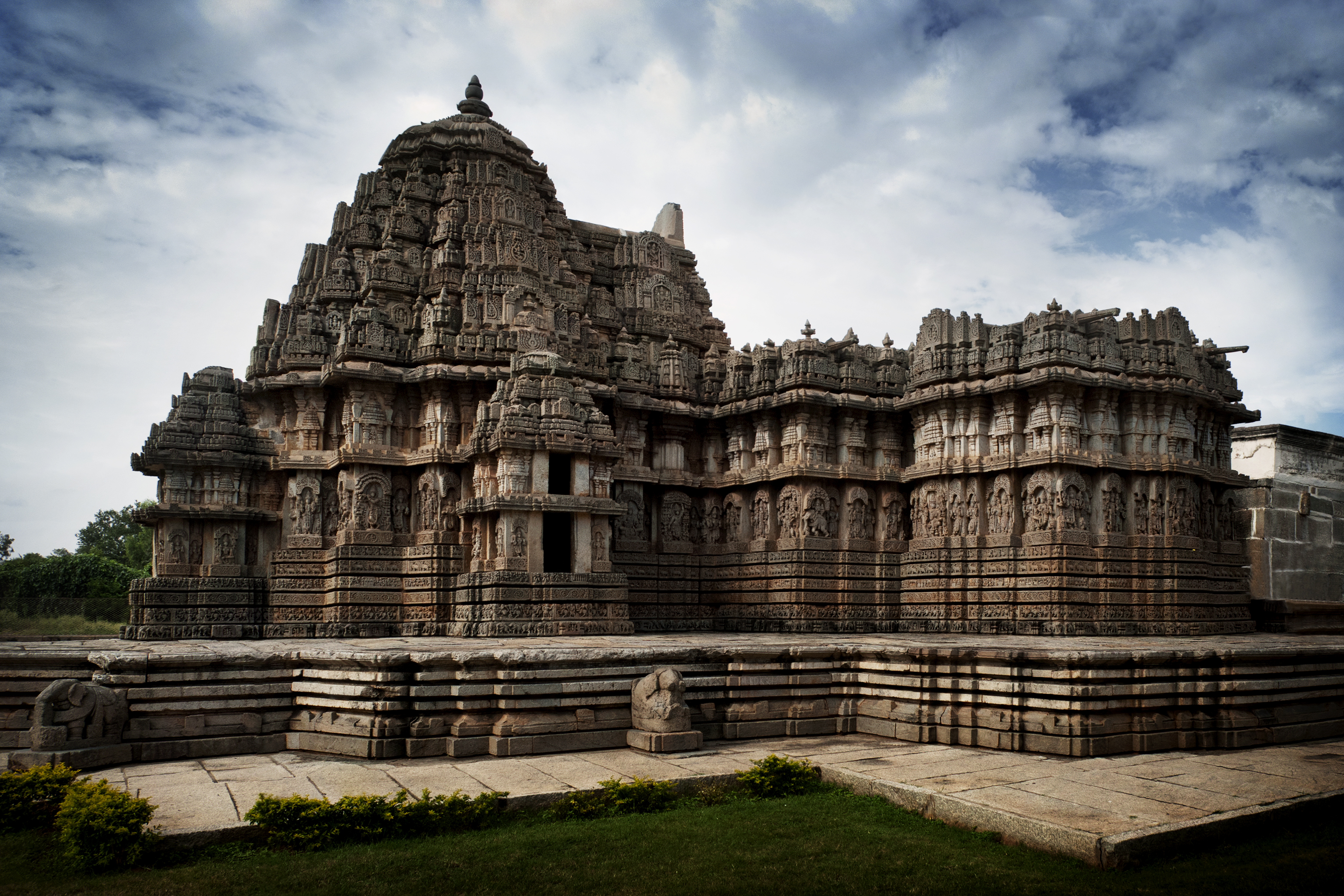 Lakshminarayana Temple, Hosaholalu, Mandya district, Karnataka, India from the outside.